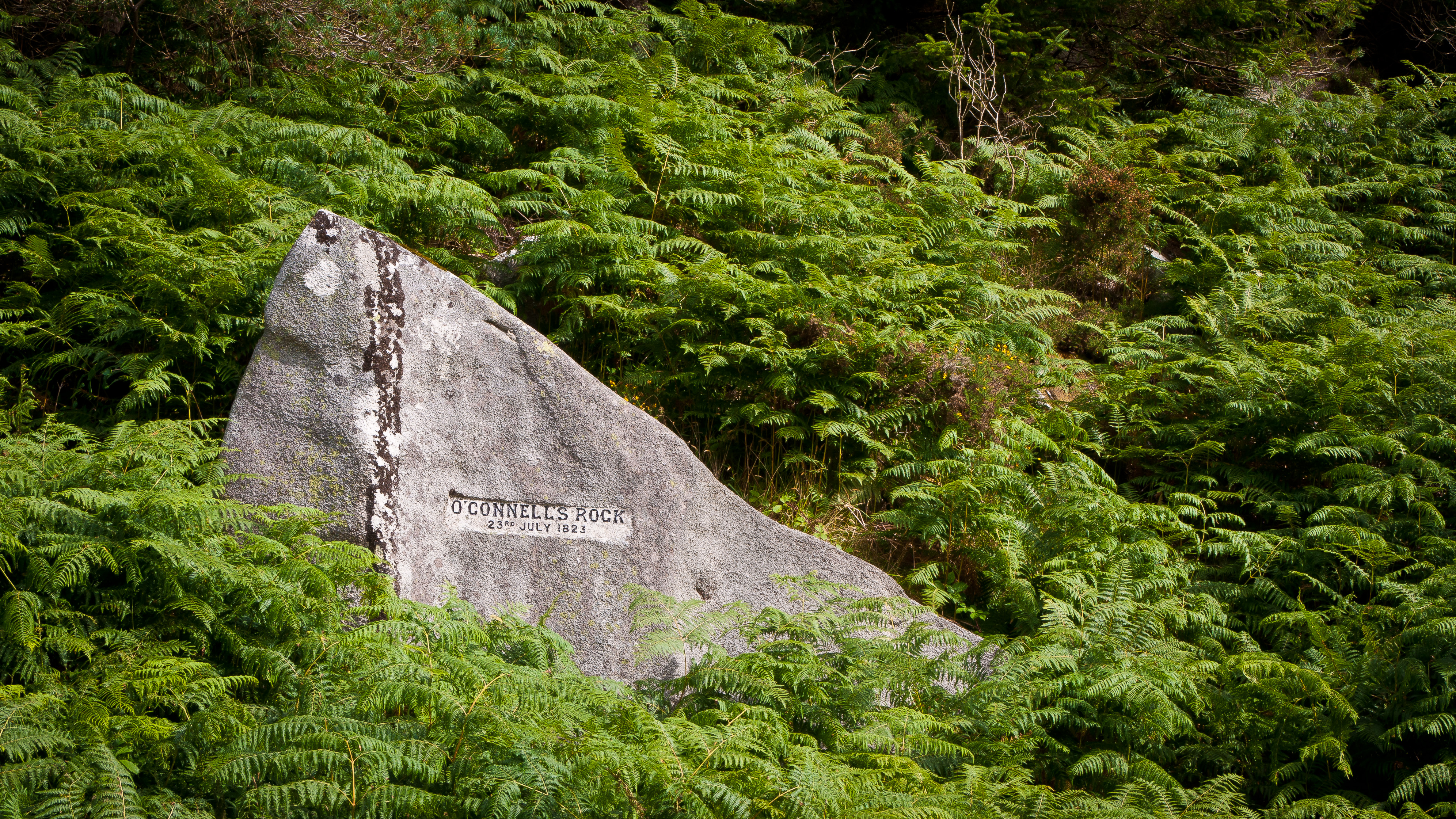 Daniel O'Connell addressed a monster meeting from this rock on the slopes of Tibradden Mountain, County Dublin, Ireland on 23 July 1823